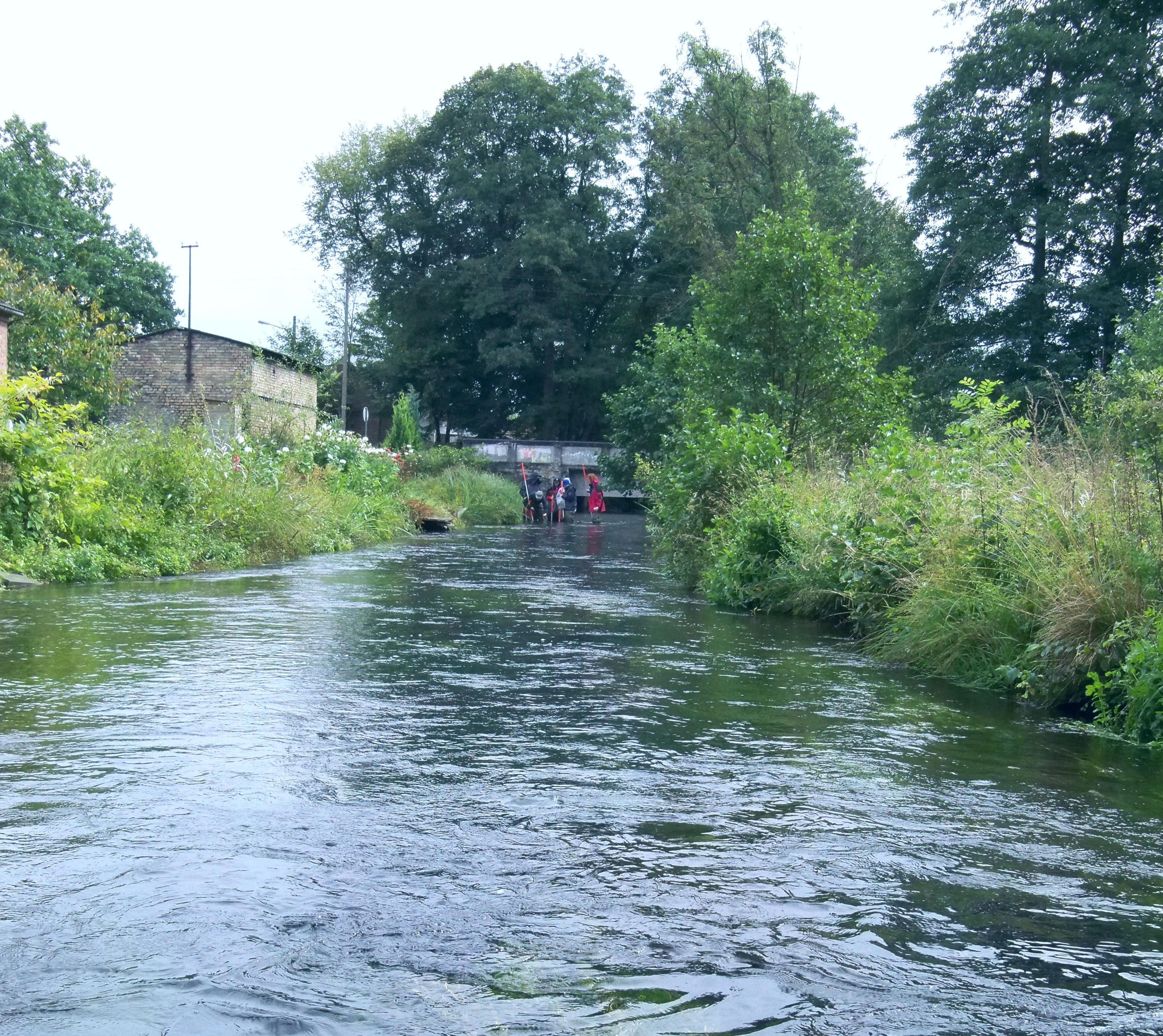 Rurzyca river in Poland. Hydrobotanical assessment of river ecological status.